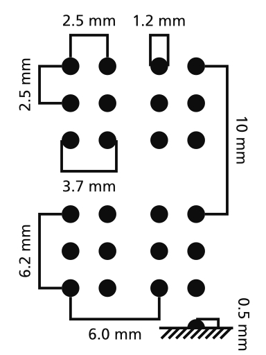 Dimensions of the Braille code.